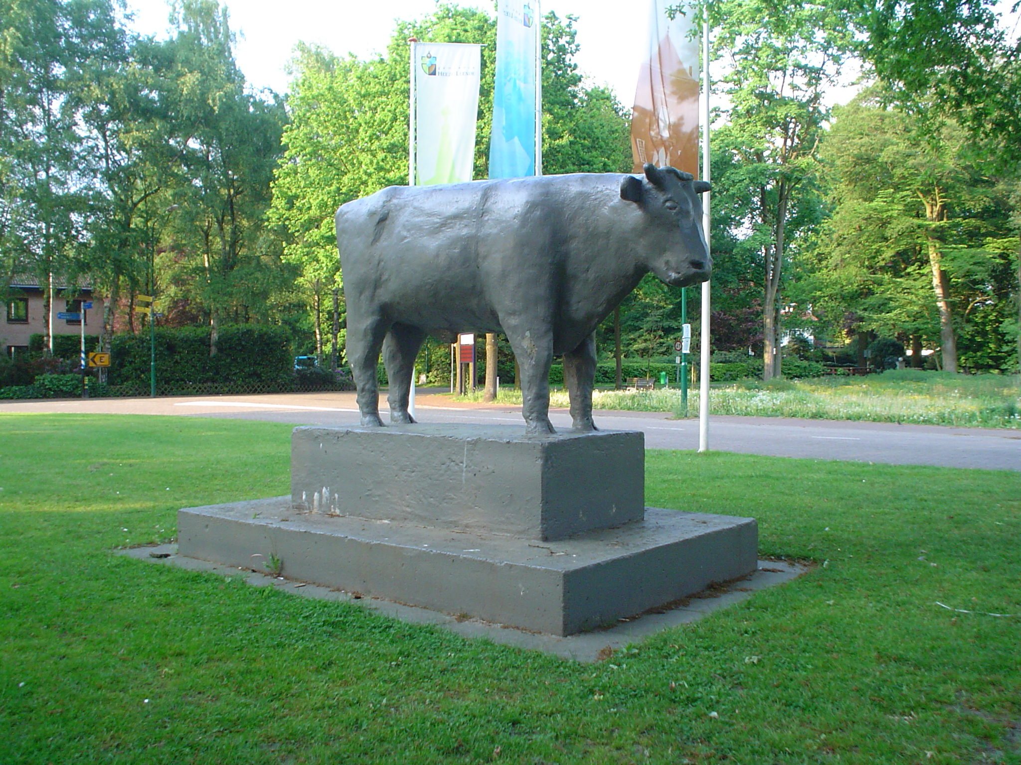 Statue of an ox in the village of Sterksel, the Netherlands.